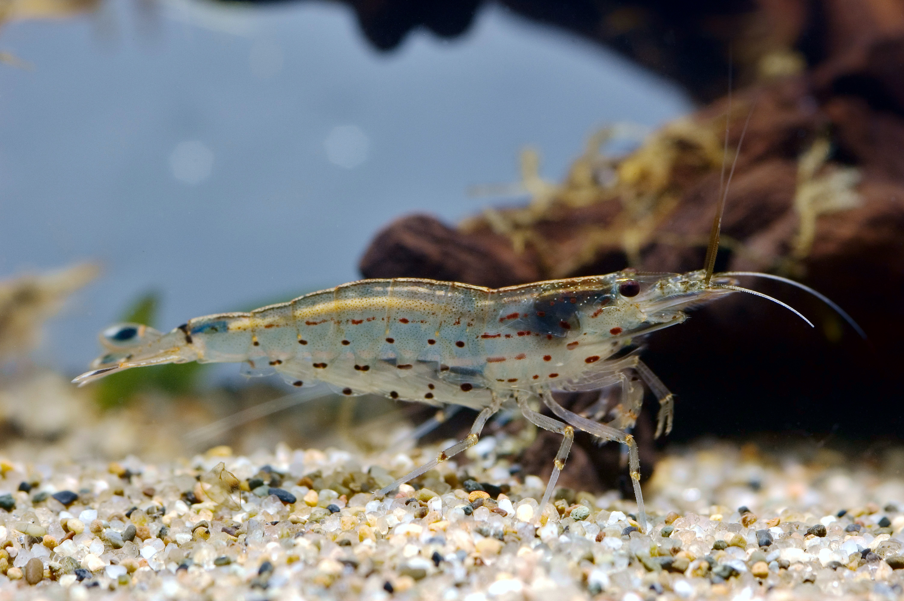 Yamatonumaebi or Japanese marsh shrimp, Caridina multidentata, from Hamamatsu, Shizuoka, Japan.